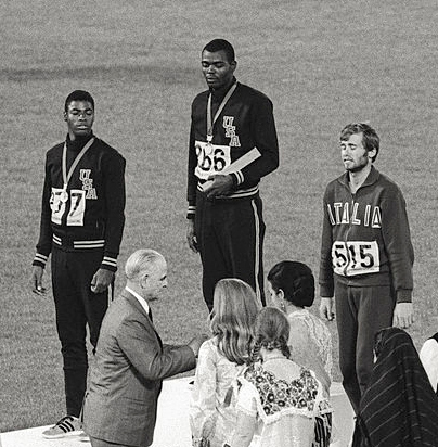 View of the podium of the Olympic final race of 110 metre hurdling during the awarding of the third ranked, the Italian Eddy Ottoz. On his right, the two US athletes, first and second ranked, Erv Hall and Willie Davenport respectively. Mexico City (Mexico), October 17, 1968.